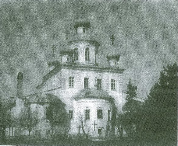 Desyatinny monastery, the main facade. According to the book: Sekretar, Lyudmila (2011). Monastyri Velikogo Novgoroda i okrestnostei (in Russian). Moscow: Severnyi Palomnik. ISBN 978-5-94431-305-8. the picture is made in 1912 by P. Pokryshkin